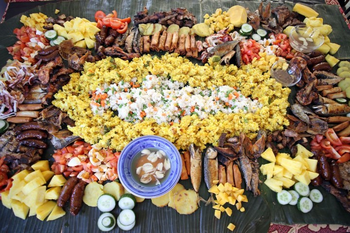 Different viands served on a Boodle Fight